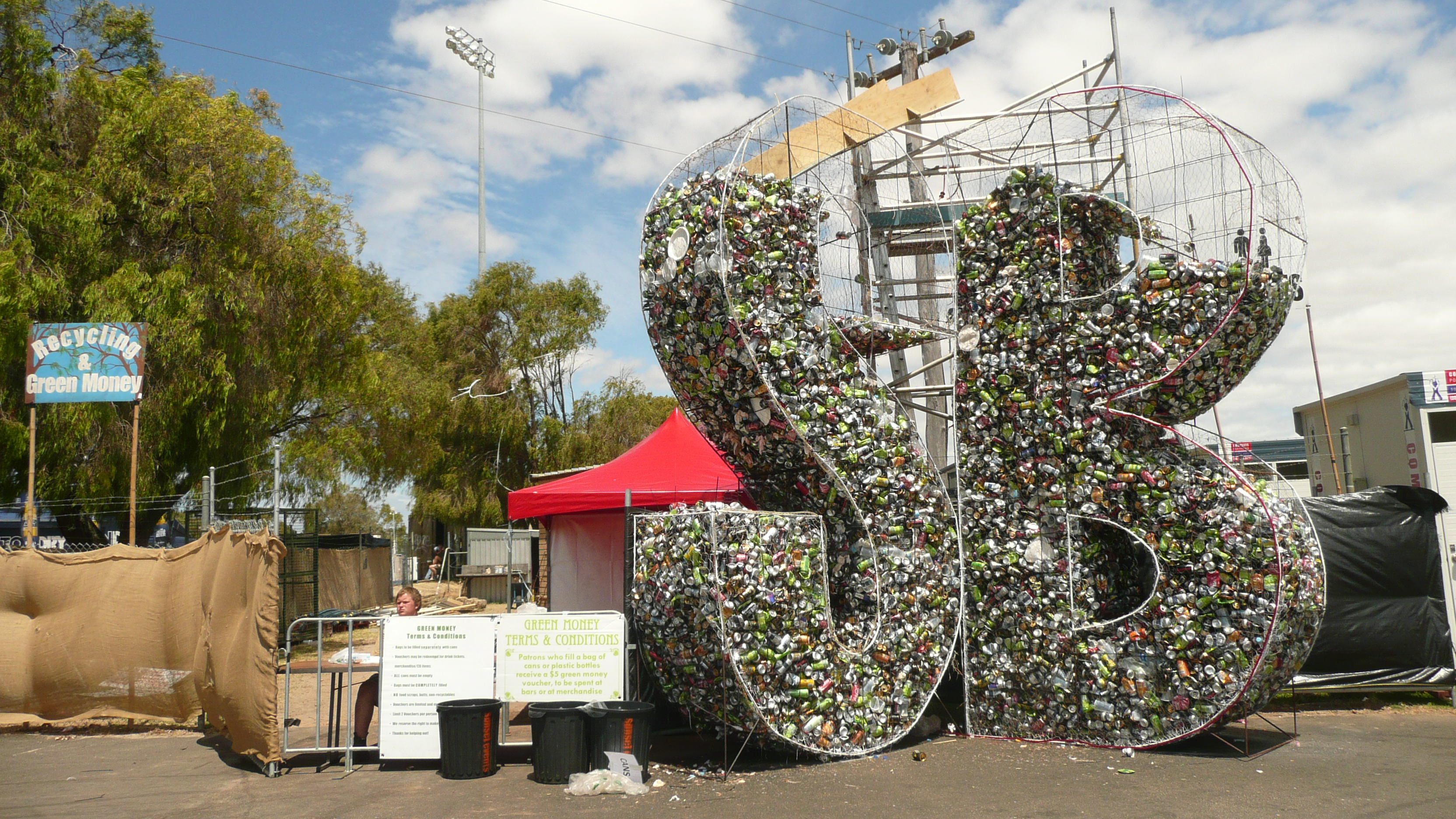 Recycling display at the 2014 Southbound music festival in Busselton, Western Australia.